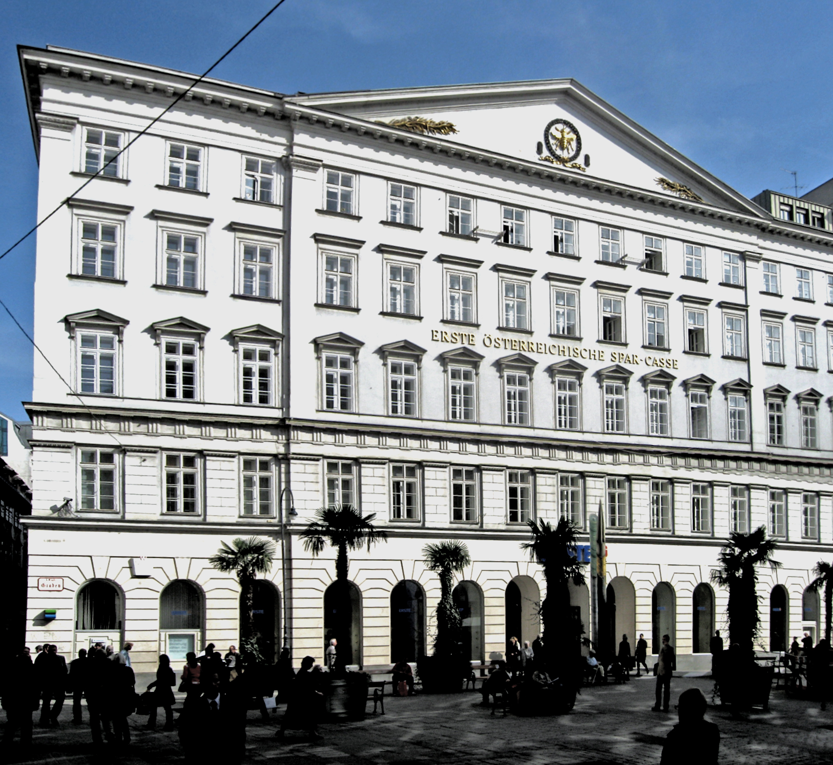 Erste österreichische Spar-Casse in Vienna's I. district